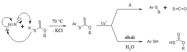 Decomposition of a generic diazoxanthate to produce an aryl thiol and/or an aryl thioether.